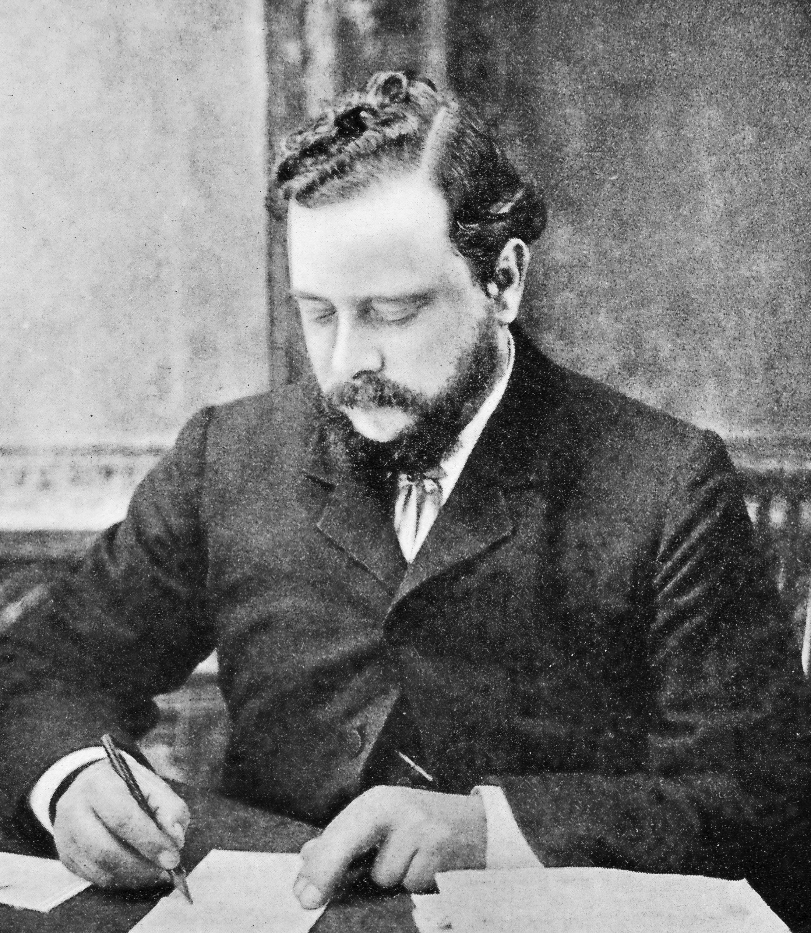 Photo of chemist C R Alder Wright, probably circa 1875